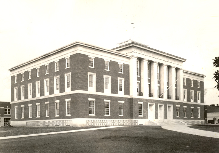 Fort Smith, Arkansas U.S. Post Office and Court House (1937) Completed in 1936. Supervising Architect: Louis A. Simon Still in use by the U.S. District Court for the Western District of Arkansas. Renamed the Judge Isaac C. Parker Federal Building in 1996.